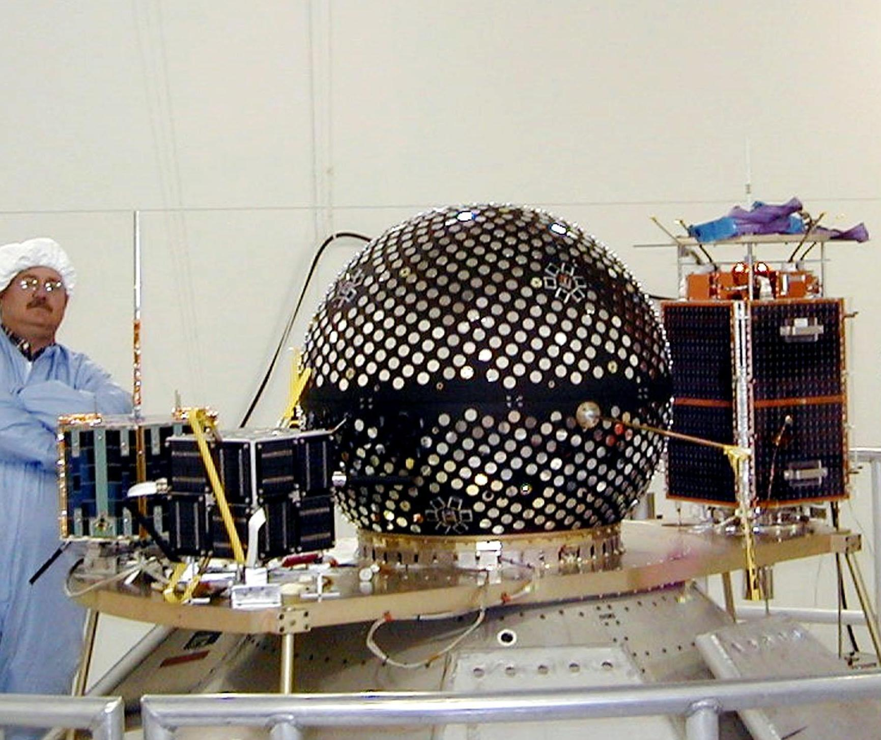 KENNEDY SPACE CENTER, Fla. -- Technicians complete final preparations to the four Athena 1 payloads (Starshine 3, PICOSat, PCSat and Sapphire) at Kodiak Island, Alaska, as preparations to launch Kodiak Star proceed. The first launch to take place from Alaska's Kodiak Launch Complex, Kodiak Star is scheduled to lift off on a Lockheed Martin Athena I launch vehicle on Sept. 17 during a two-hour window that extends from 5:00 to 7:00 p.m. ADT. The payloads aboard include the Starshine 3, sponsored by NASA, and the PICOSat, PCSat and Sapphire, sponsored by the Department of Defense (DoD) Space Test Program